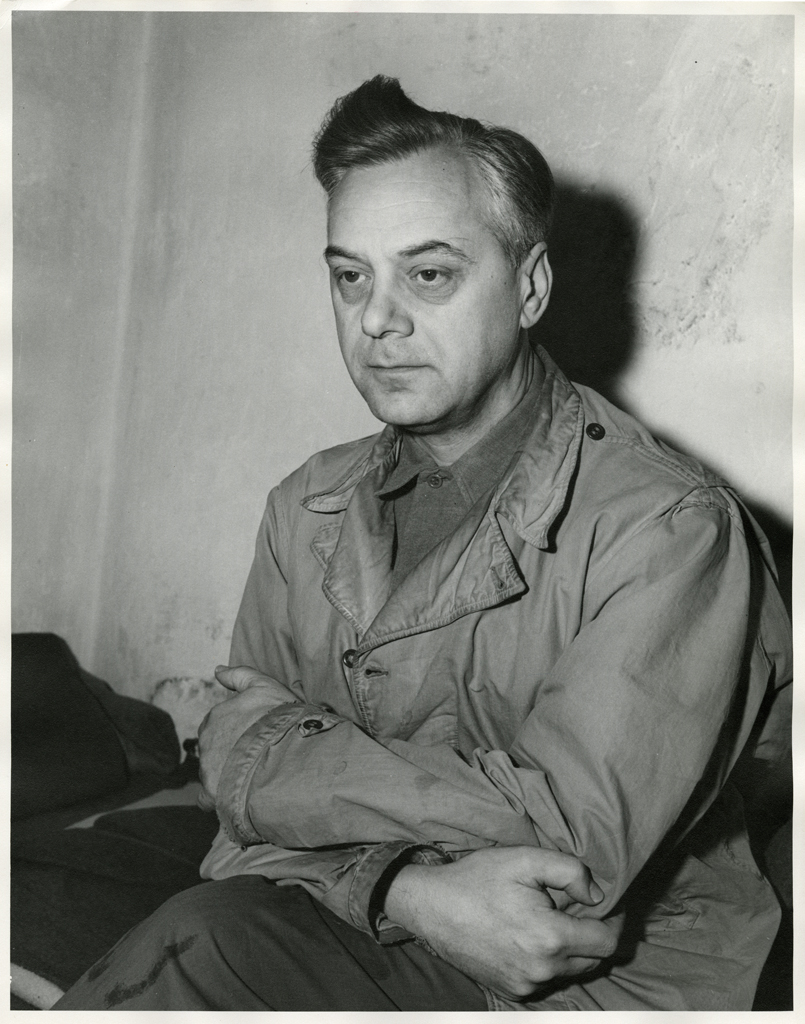 Nazi party member and theorist Alfred Rosenberg photographed in his jail cell at Nuremberg during the Nuremberg Trials, Nuremberg, Germany. Gelatin silver process on paper. 28 cm x 35.3 cm. Image courtesy of the Harvard Law School Library, Harvard University, Cambridge, Mass.